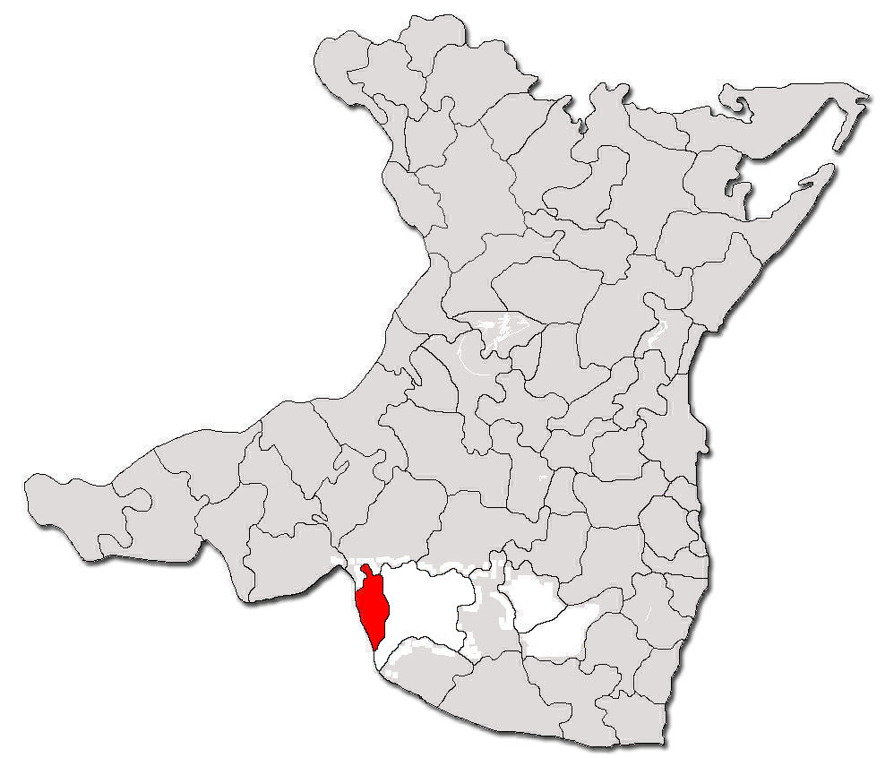 Contour map of commune Dumbraveni